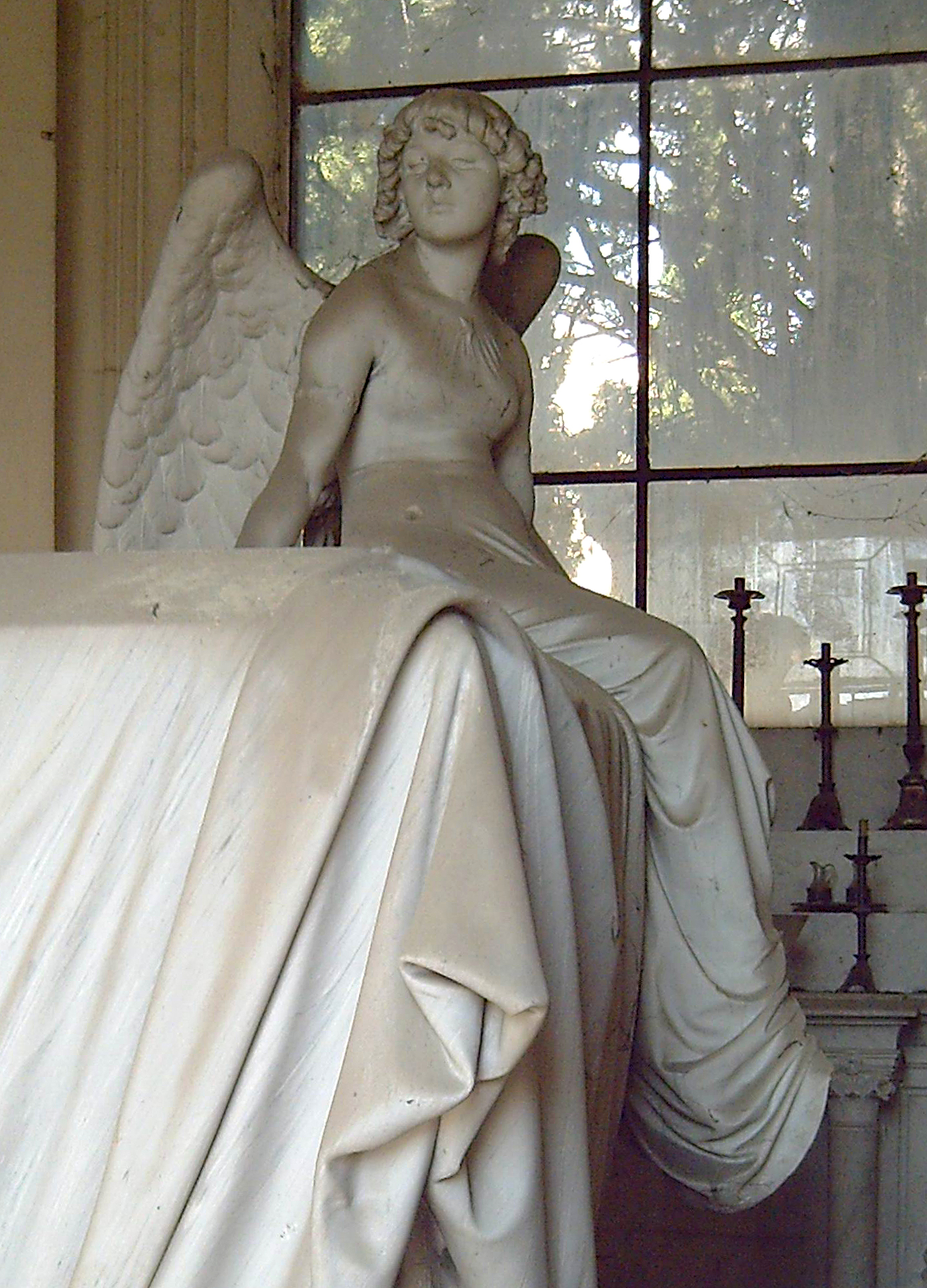 Detail of the interior of De La Gándara family's pantheon, at San Isidro graveyard in Madrid (Spain). Sculpture was made by Giulio Monteverde (1837–1917). Pantheon was designed by architect Alejandro del Herrero and built at the end of the 19th century.